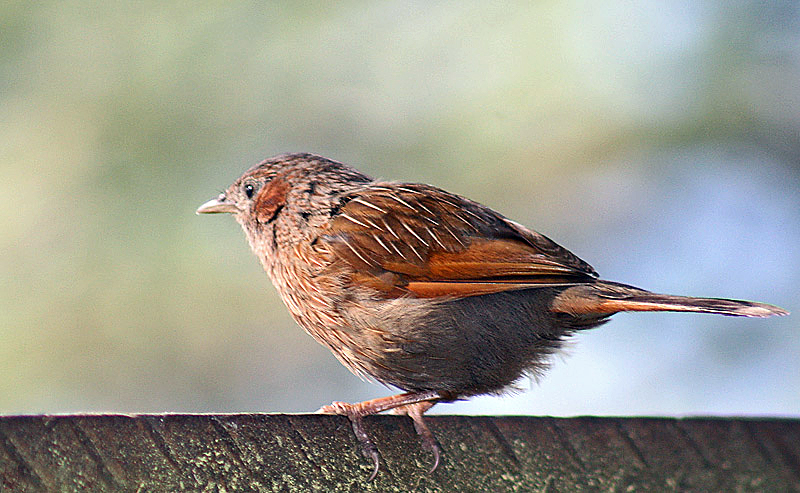 Streaked Laughingthrush Garrulax lineatus in Simla, Himachal Pradesh, India.